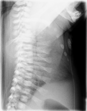 Asphyxiating thoracic dysplasia Lateral CXR